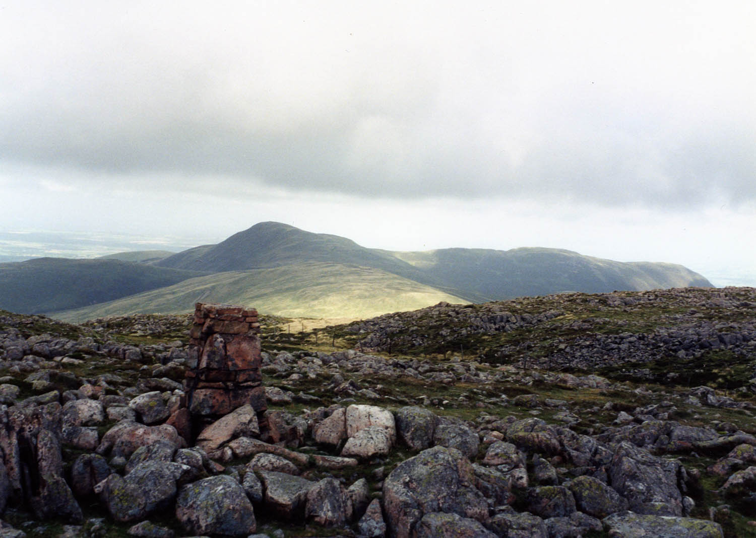 Personal picture taken by Mick Knapton